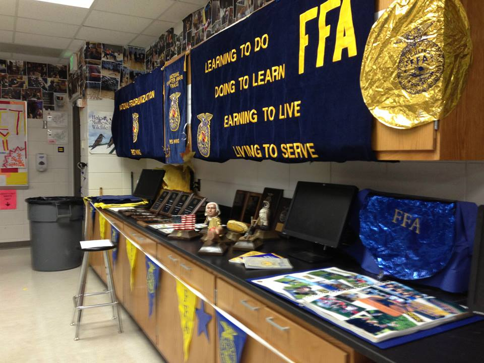 RW FFA display, 2013